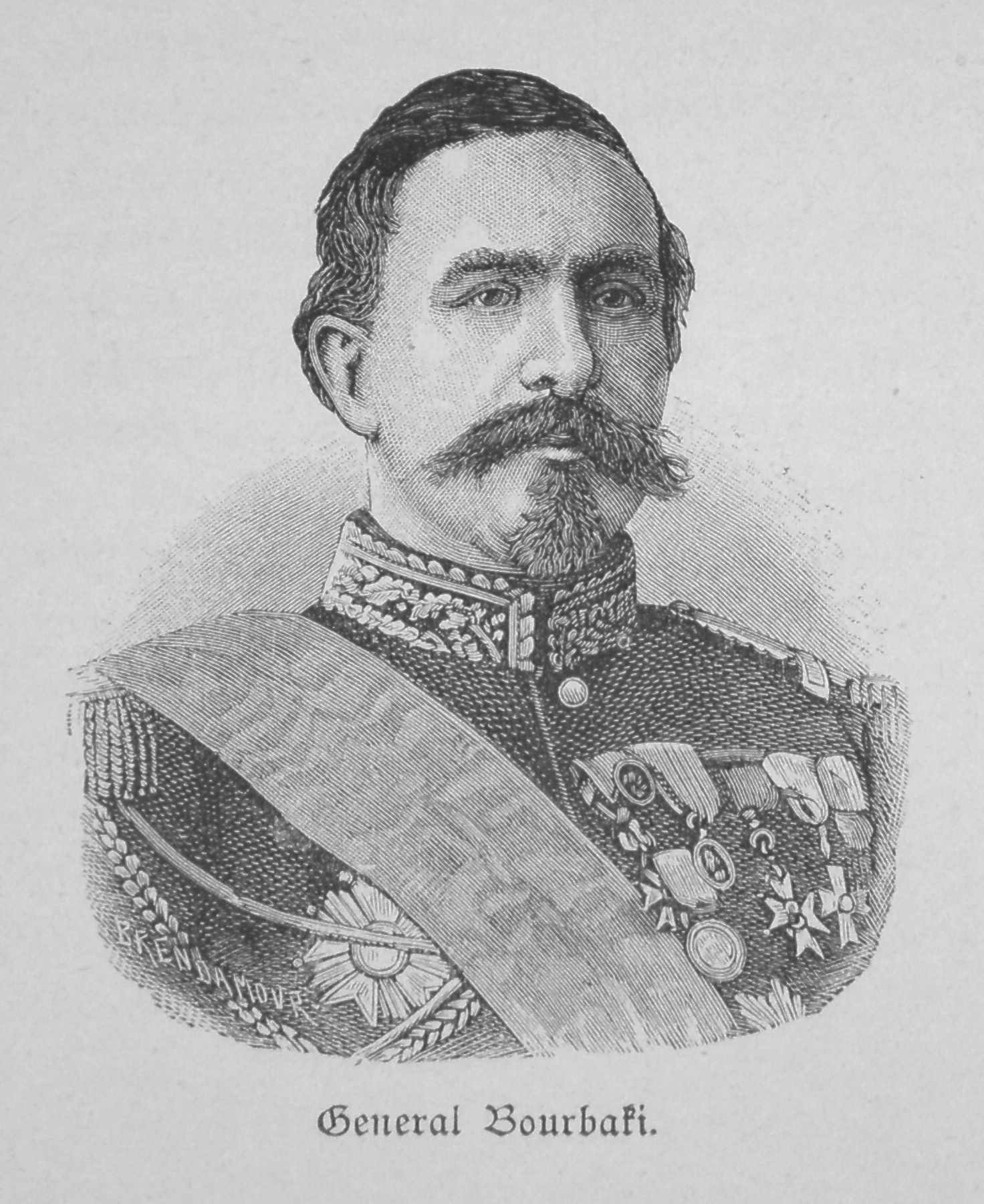 general Bourbaki